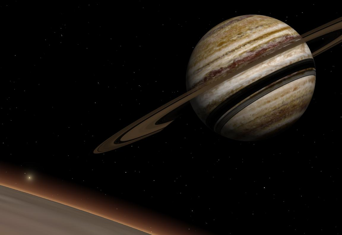 Planet 16 Cygni Bb (min mass ~1.7 MJ) as seen from an desert moon. Star 16 Cygni A is setting in the moon's atmosphere.